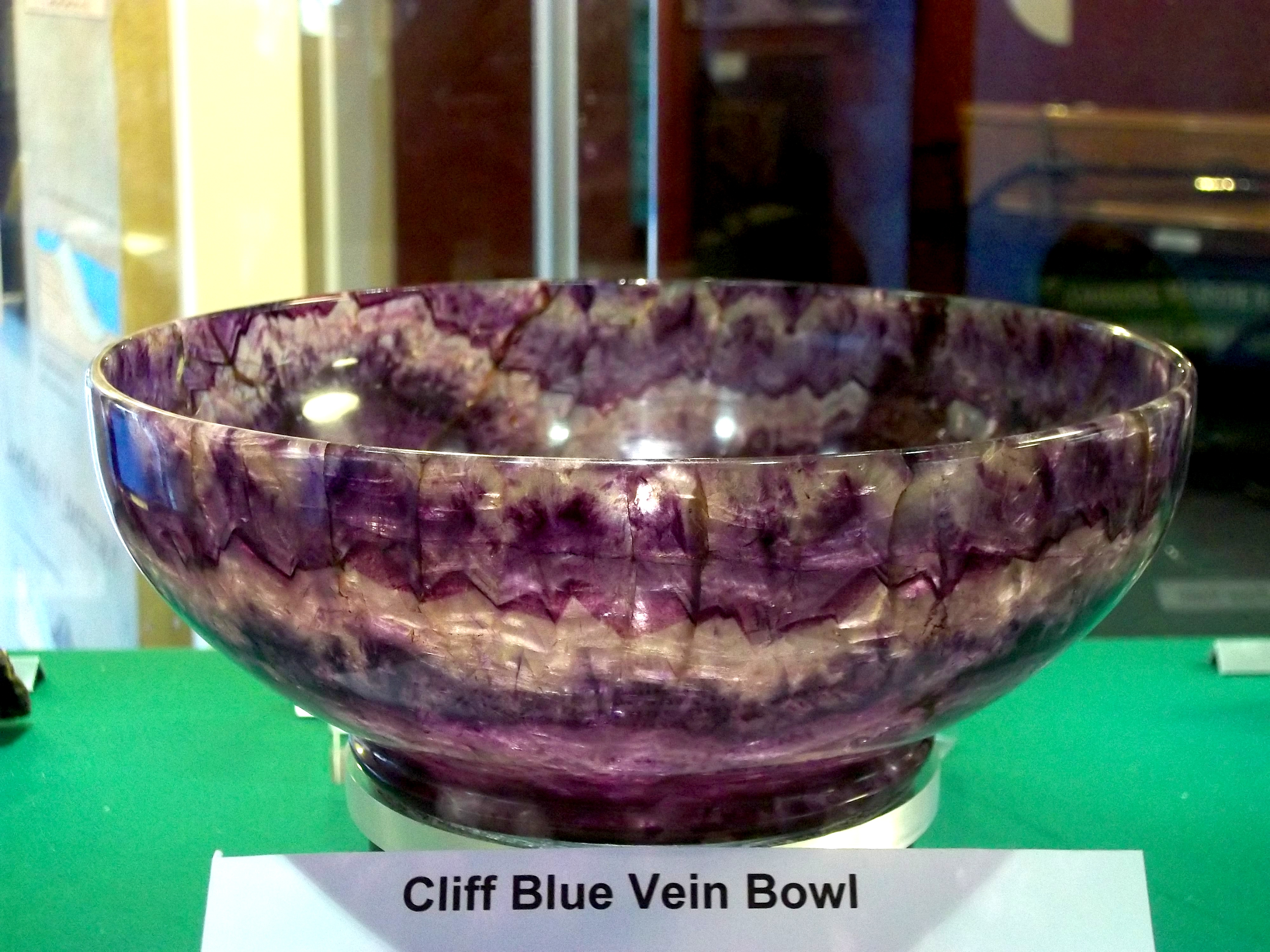 Bowl made from Derbyshire Blue John. Located Castleton Visitor Centre, Derbyshire. The caption card below it reads: "Cyril Adamson and Peter Harrison mined the Blue John Stone and made this beautiful bowl from it. The stone was mined from Treak Cliff Cavern in 1960, allowed to dry out for two years. The bowl was started being made in 1962 and was completed in 1963. It was presented to the Castleton Centre in 2005 by the owners of Treak Cliff Cavern."